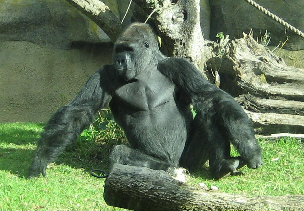 Male silverback gorilla at the Santa Barbara Zoo in February 2007.